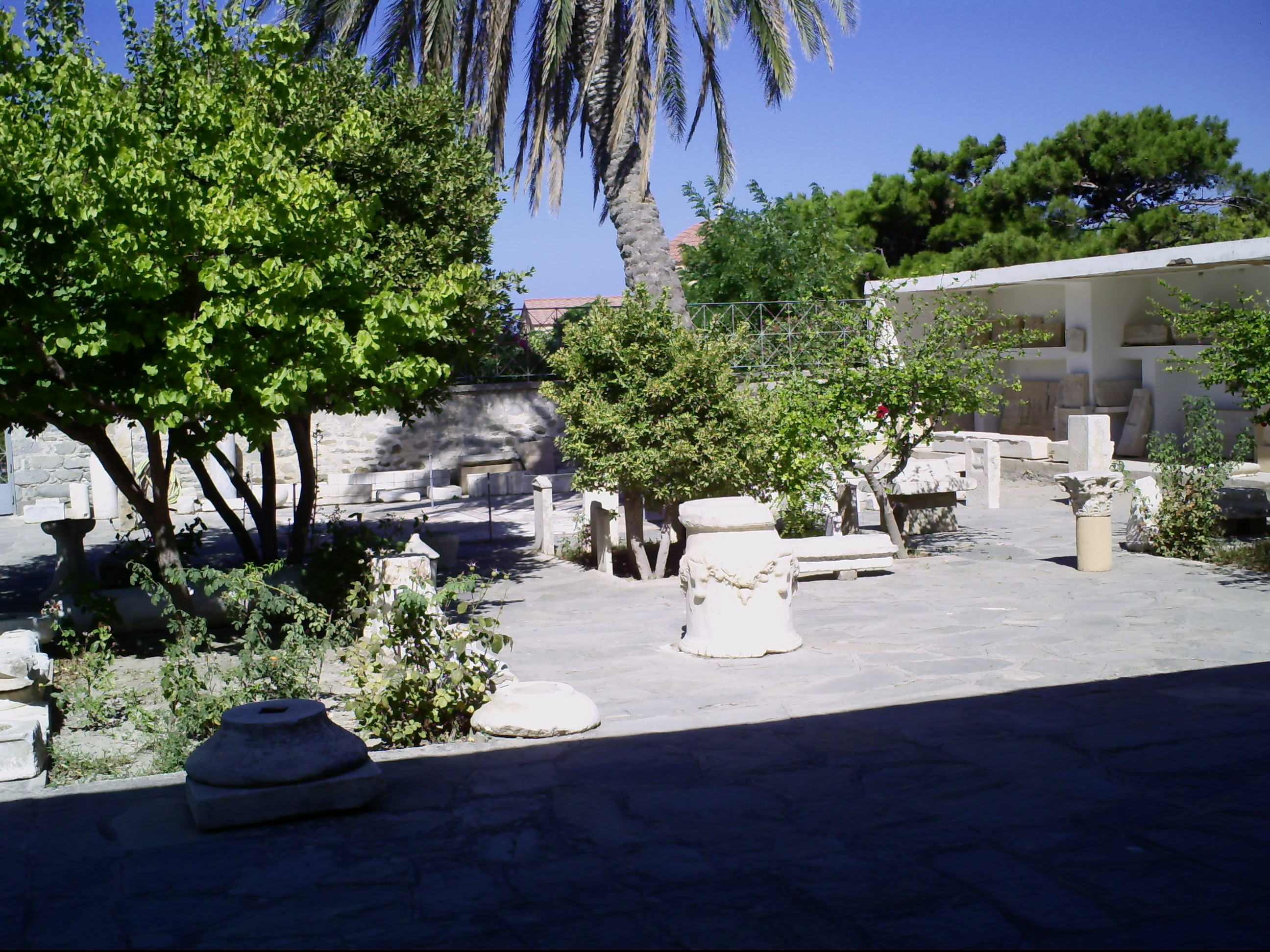 Courtyard of the archaeological museum of Paros